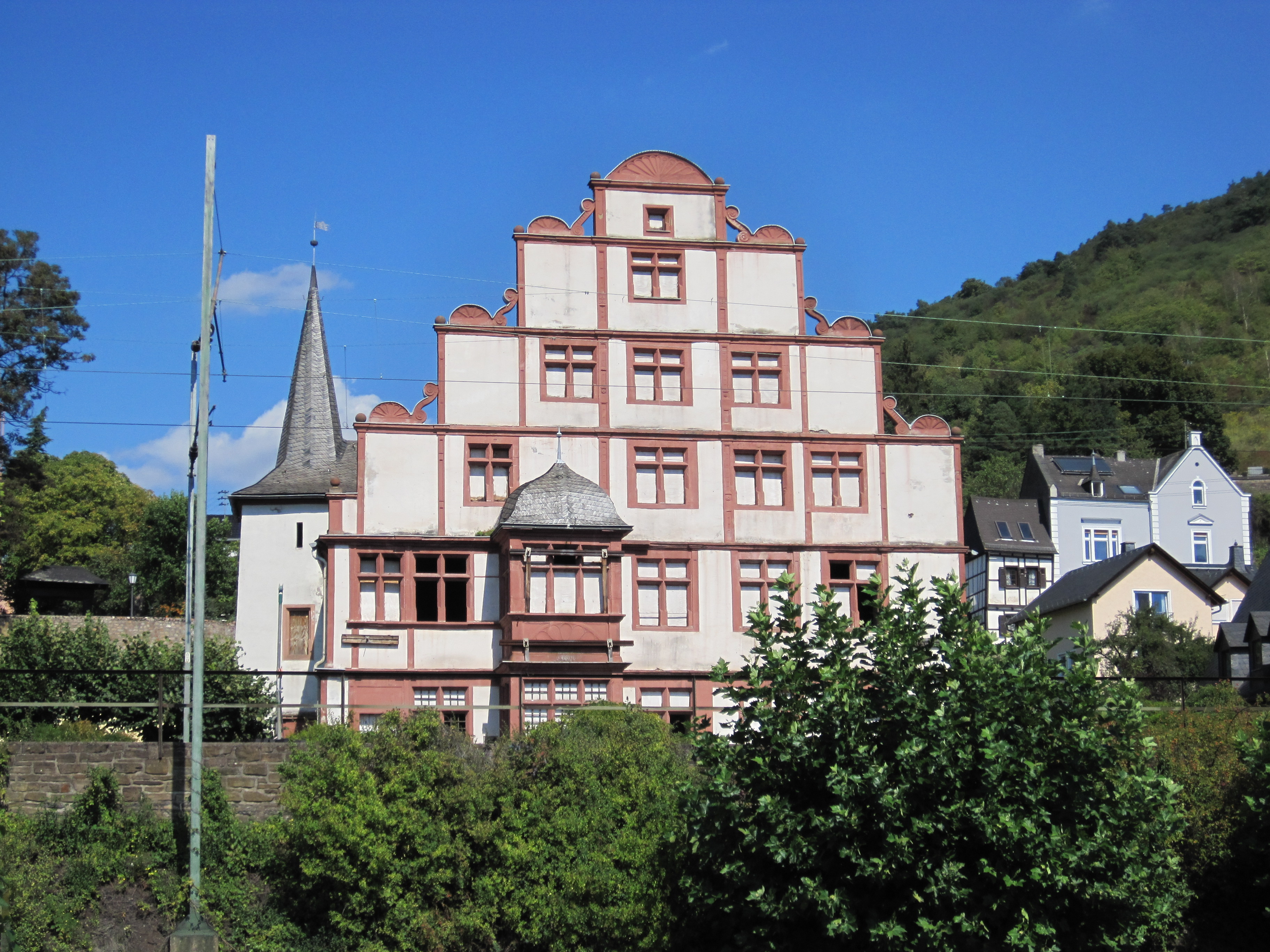 Hilchenhaus, Lorch, Germany.